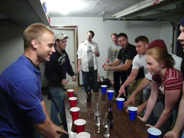 Beginning of a Flip cup game